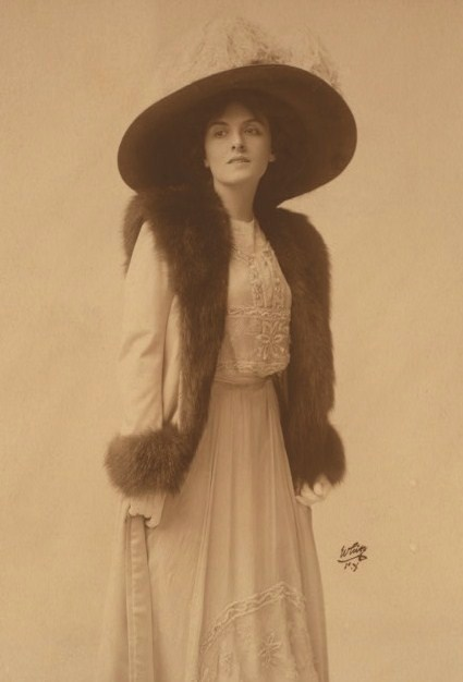 American actress Mary Nash (1884-1976) - cropped (original image : see source)